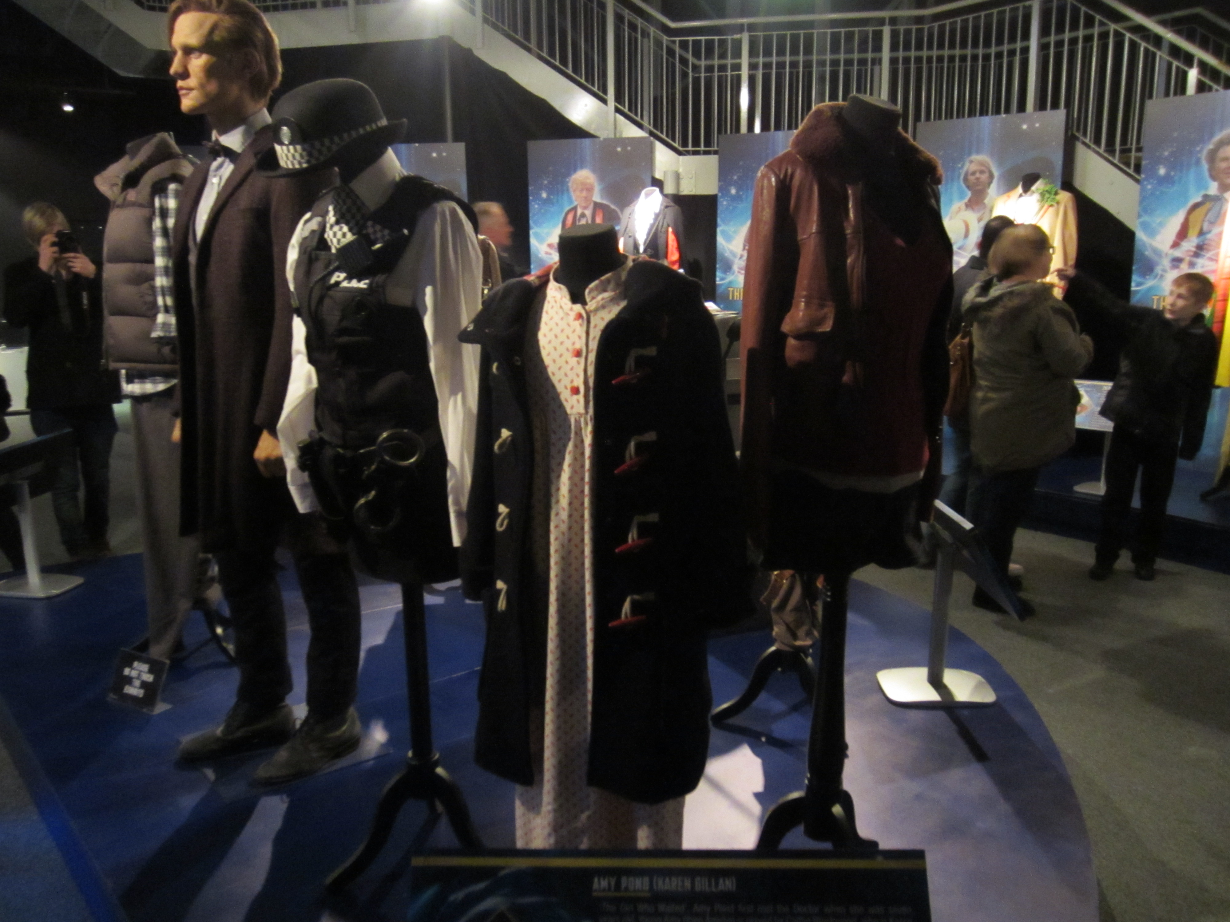 Costumes and prop from Doctor Who, displayed at the Doctor Who Experience in Cardiff.